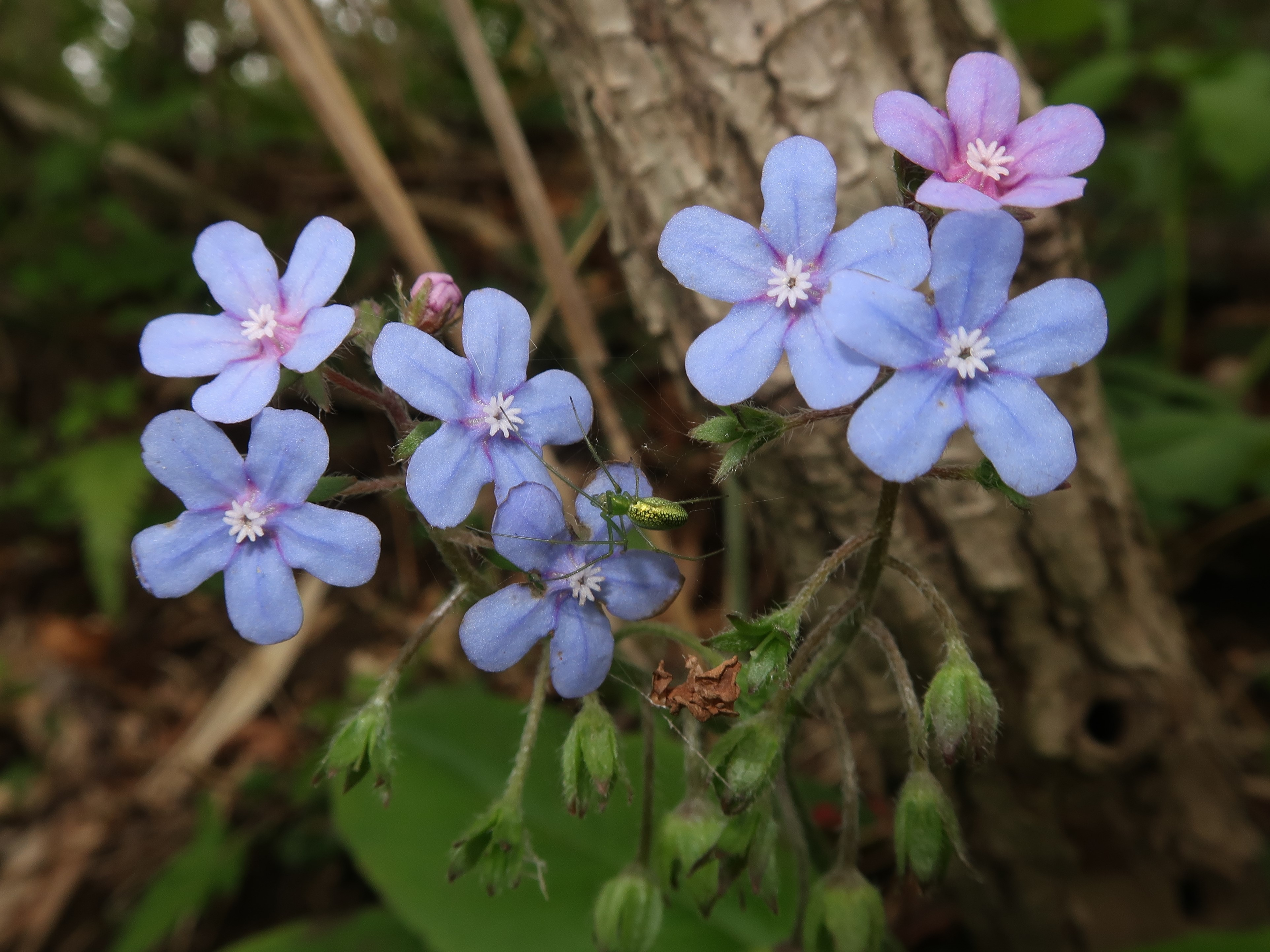 Omphalodes krameri , Akita city, Akita pref., Japan